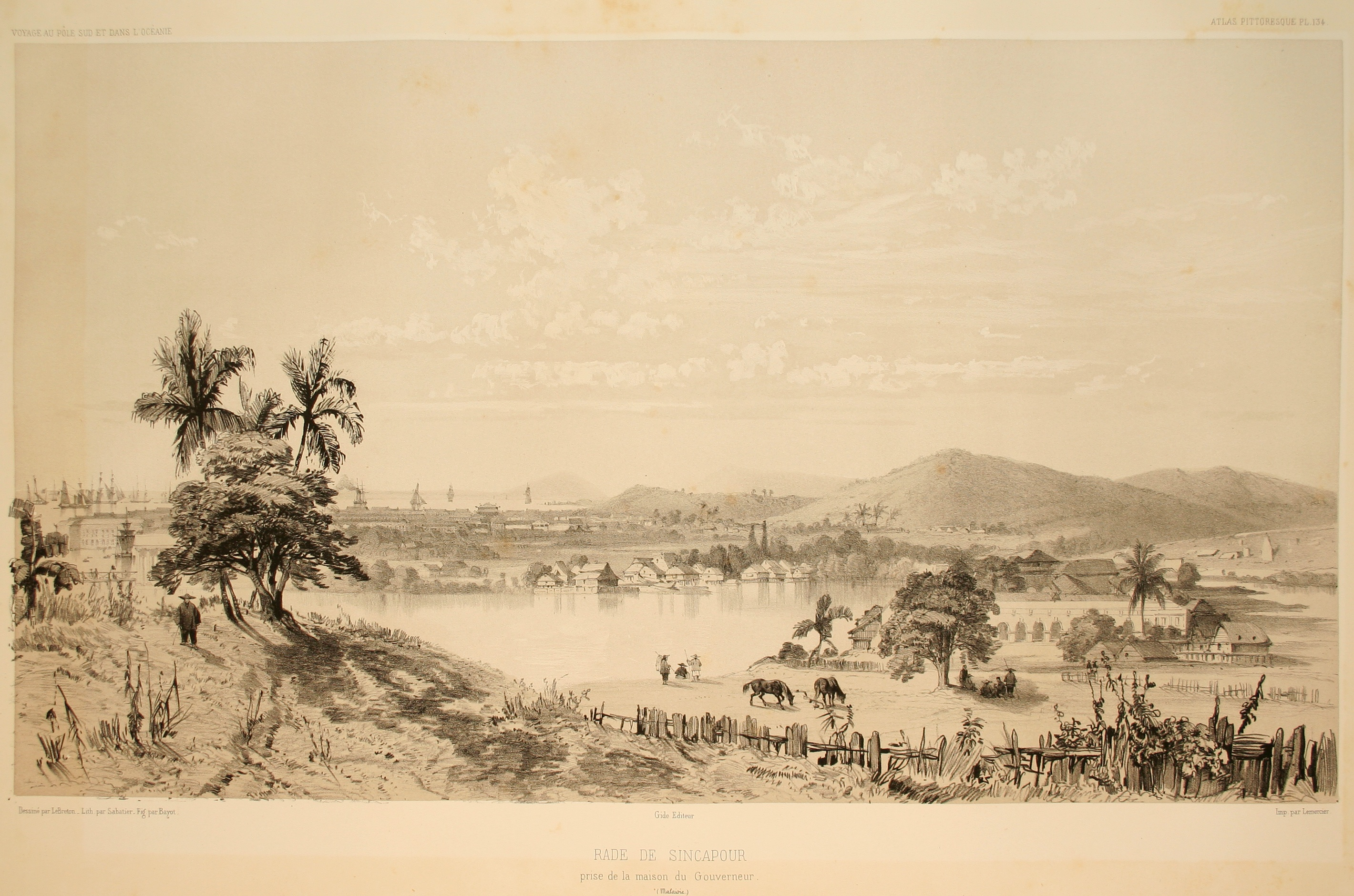 Harbour and town of Singapore, for building the Governor's house. Pictorial Atlas, plate 134.